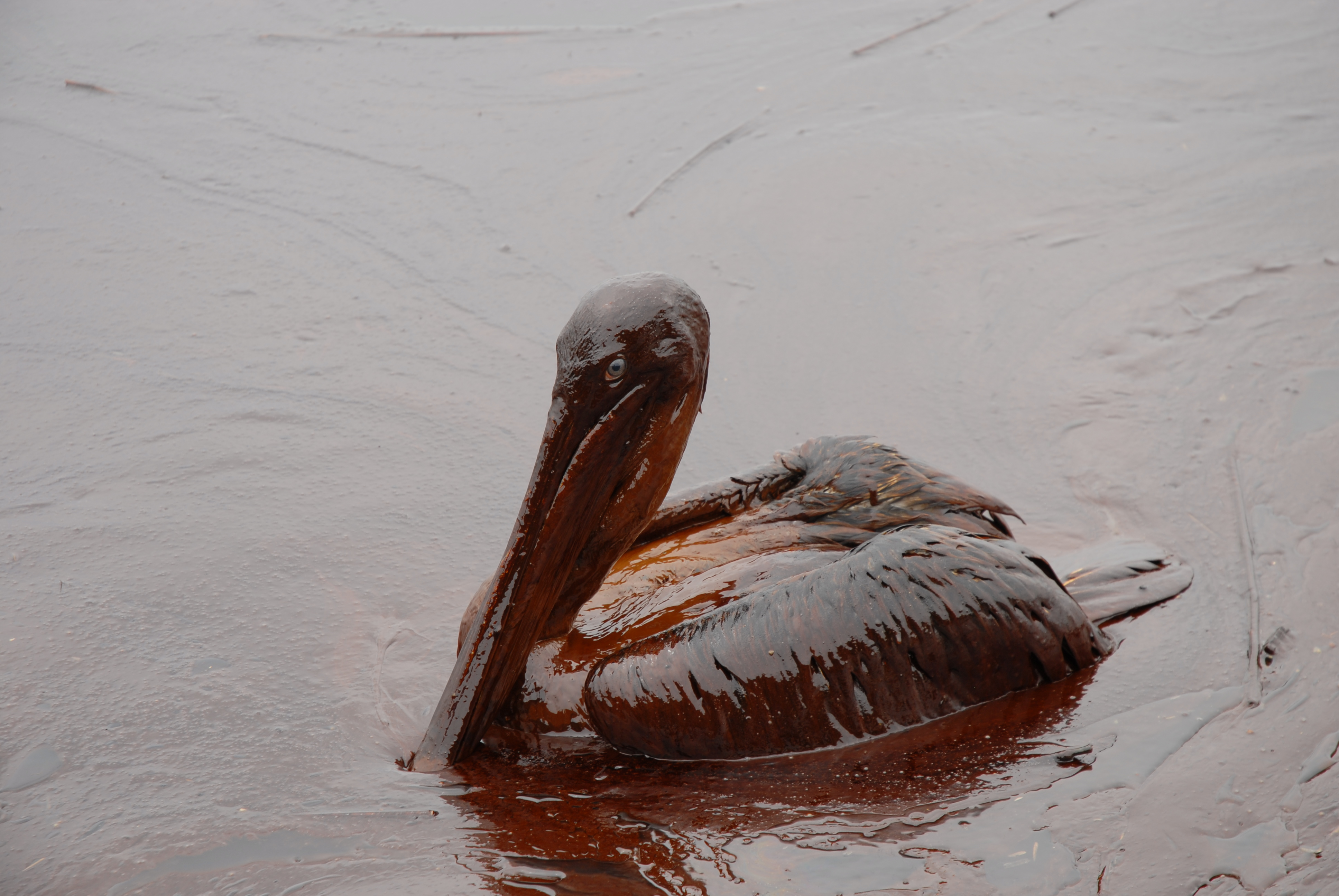 Governor Bobby Jindal travelled to Grand Isle to meet with local officials today and surveyed oil impacts on the coast and view current dredging operations in East Grand Terre. Oiled pelicans came onshore. Staff on the tour immediately dispatched the Louisiana Department of Wildlife and Fisheries to rescue the pelicans and take them to be cleaned and treated for any injuries. The brown pelican is Louisiana’s state bird, only recently removed from the endangered species list. Photos courtesy of Governor Jindal’s office.